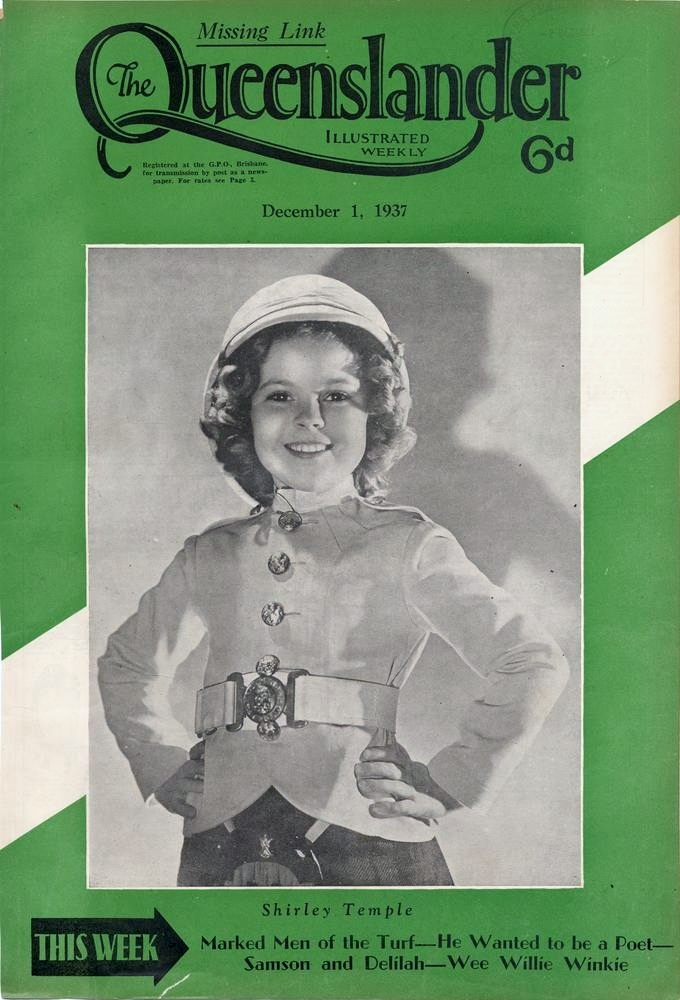 Creator: Unidentified Location:Queensland, Australia Description:Caption: Shirley Temple. A publicity photograph of Shirley Temple dressed in a military style costume probably to advertise the movie Wee Willie Winkie View this image at the State Library of Queensland: Information about State Library of Queensland’s collection